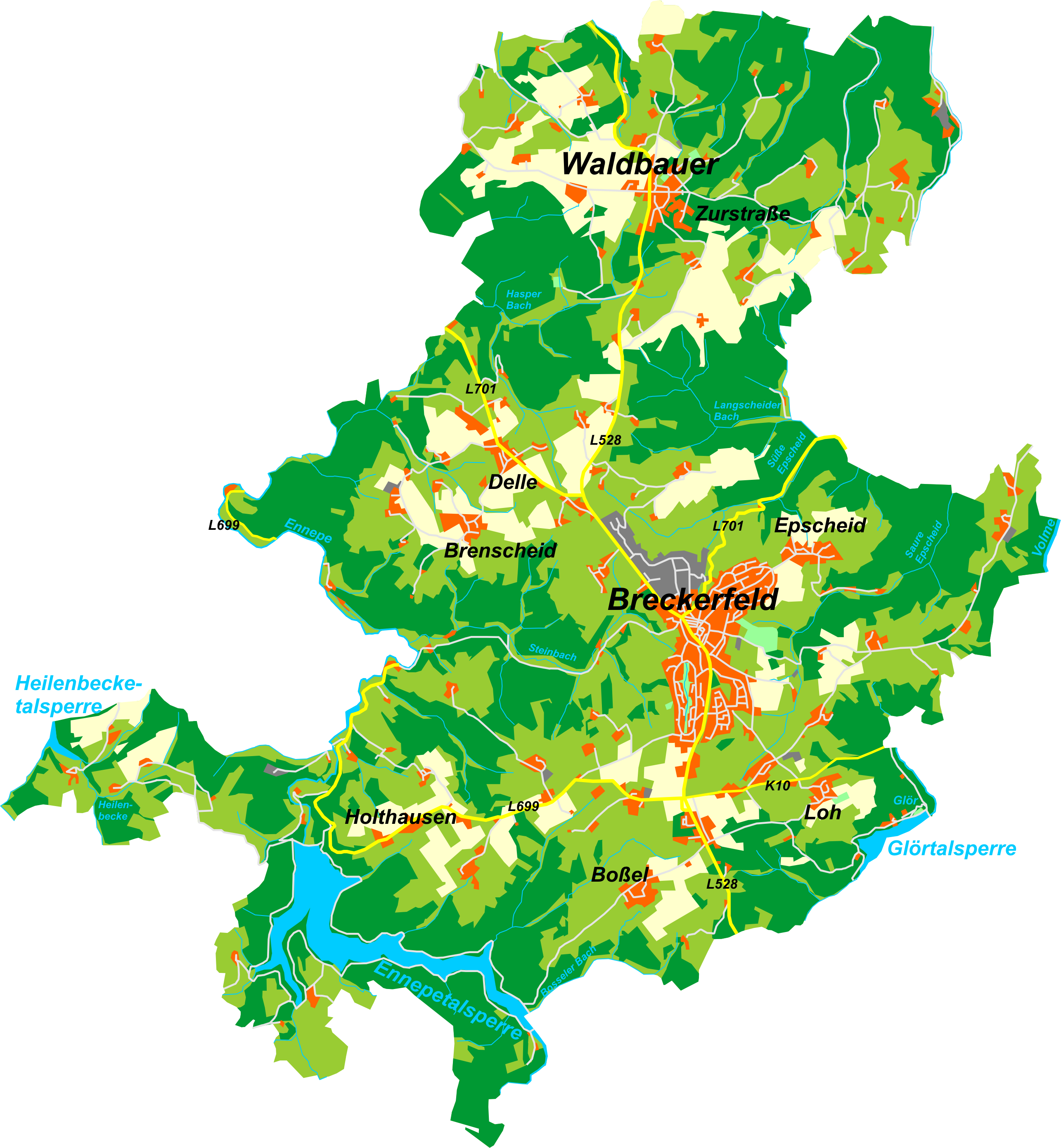 Map of Breckerfeld, Germany